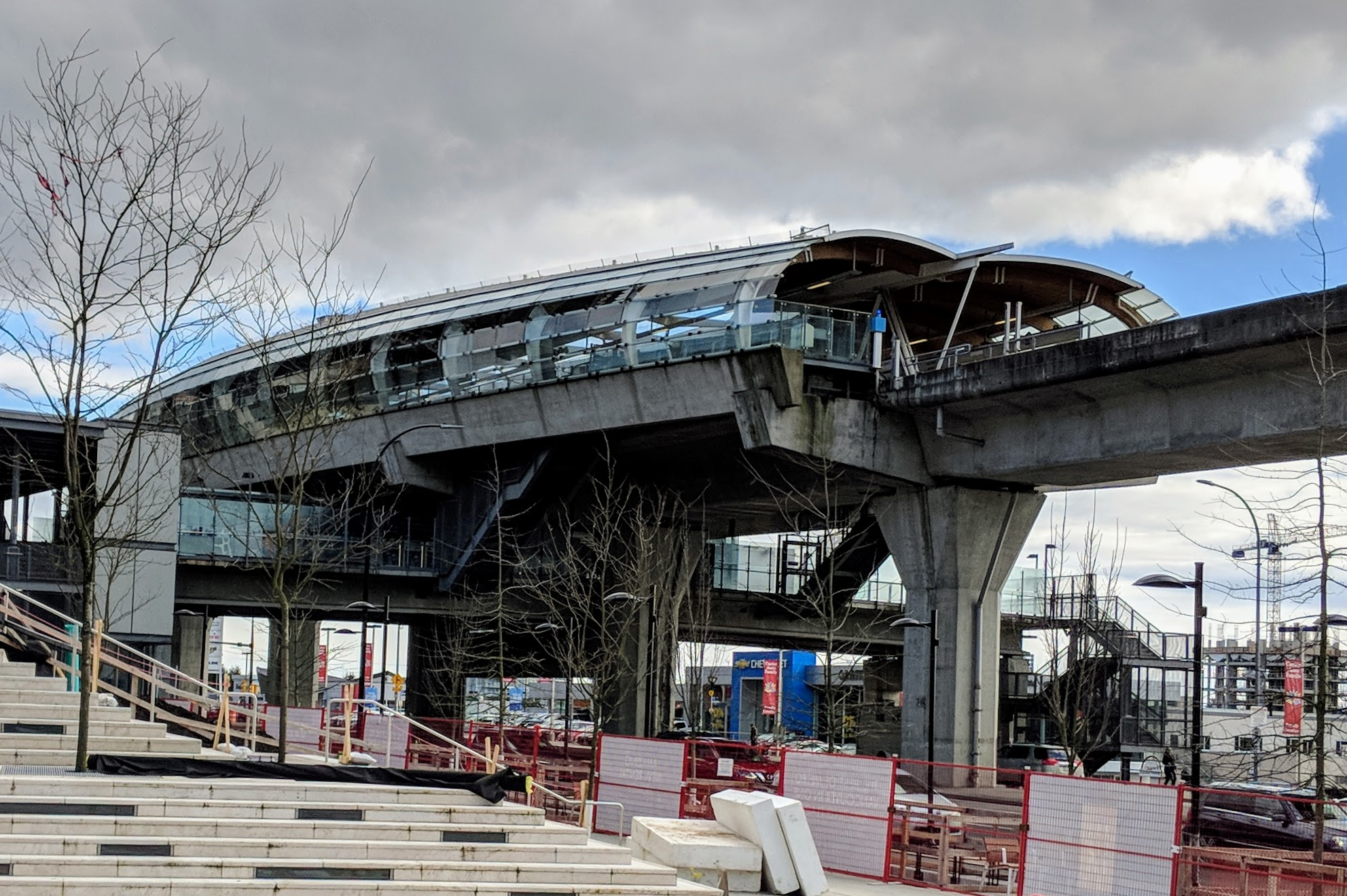 Brentwood Town Centre station viewed from the northwest.